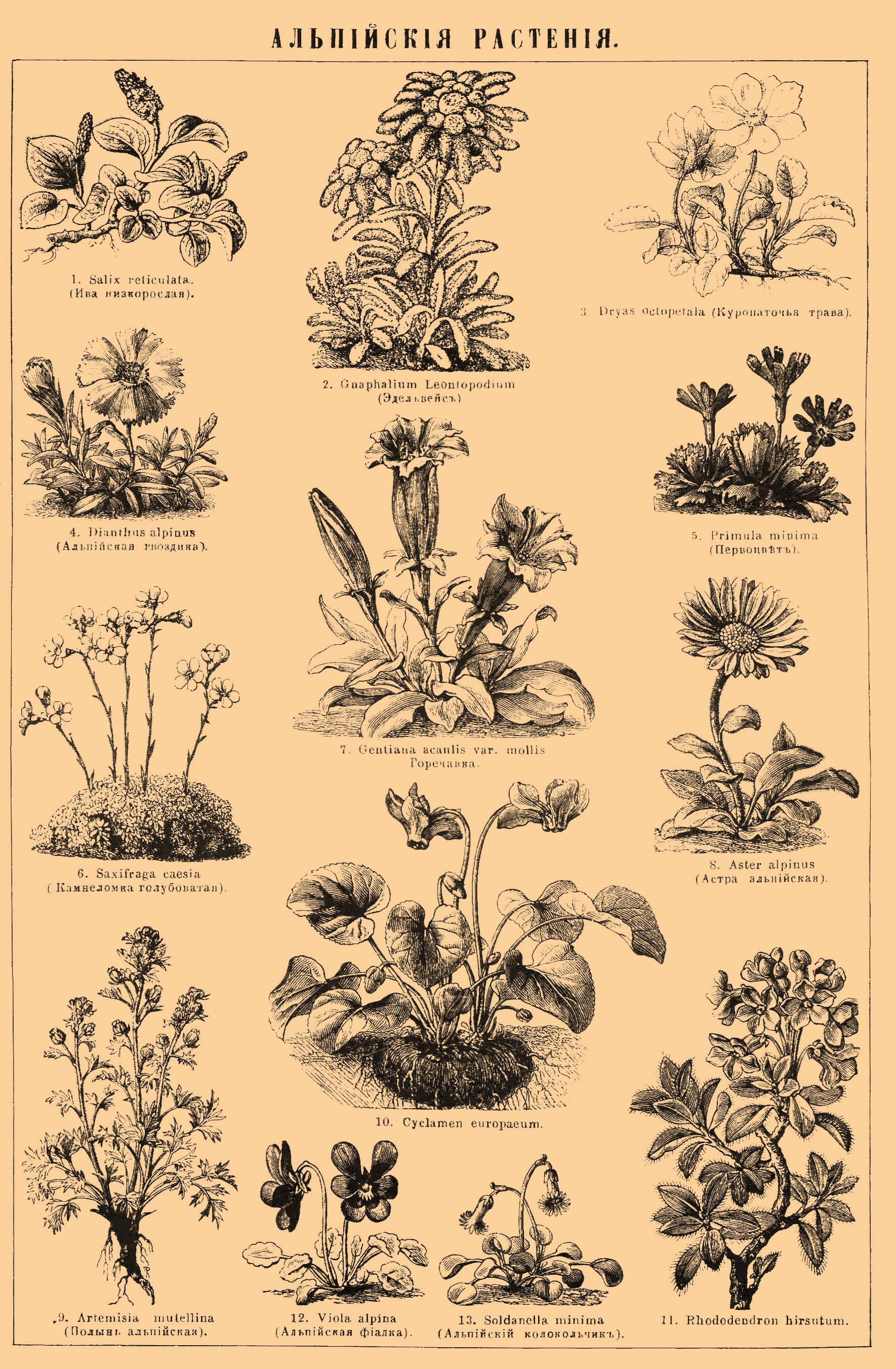 Illustration from Brockhaus and Efron Encyclopedic Dictionary (1890—1907)